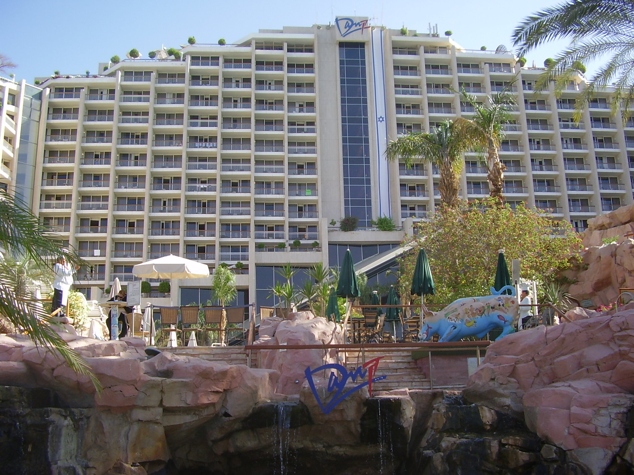 dan hotel, eilat